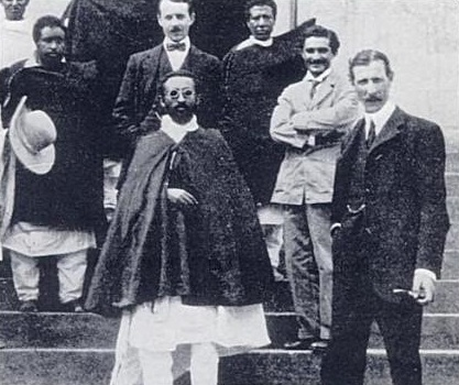 Photograph taken on 11 February 1917 on the day of the investiture of Tafari Makonnen, the future Emperor Haile Selassie, as regent. On the right, Wilfred Gilbert Thesiger, British Consul-General and Minister Plenipotentiary to Ethiopia (1909-1919) and father of explorer and travel writer Wilfred Thesiger, born in Addis Ababa in 1910.